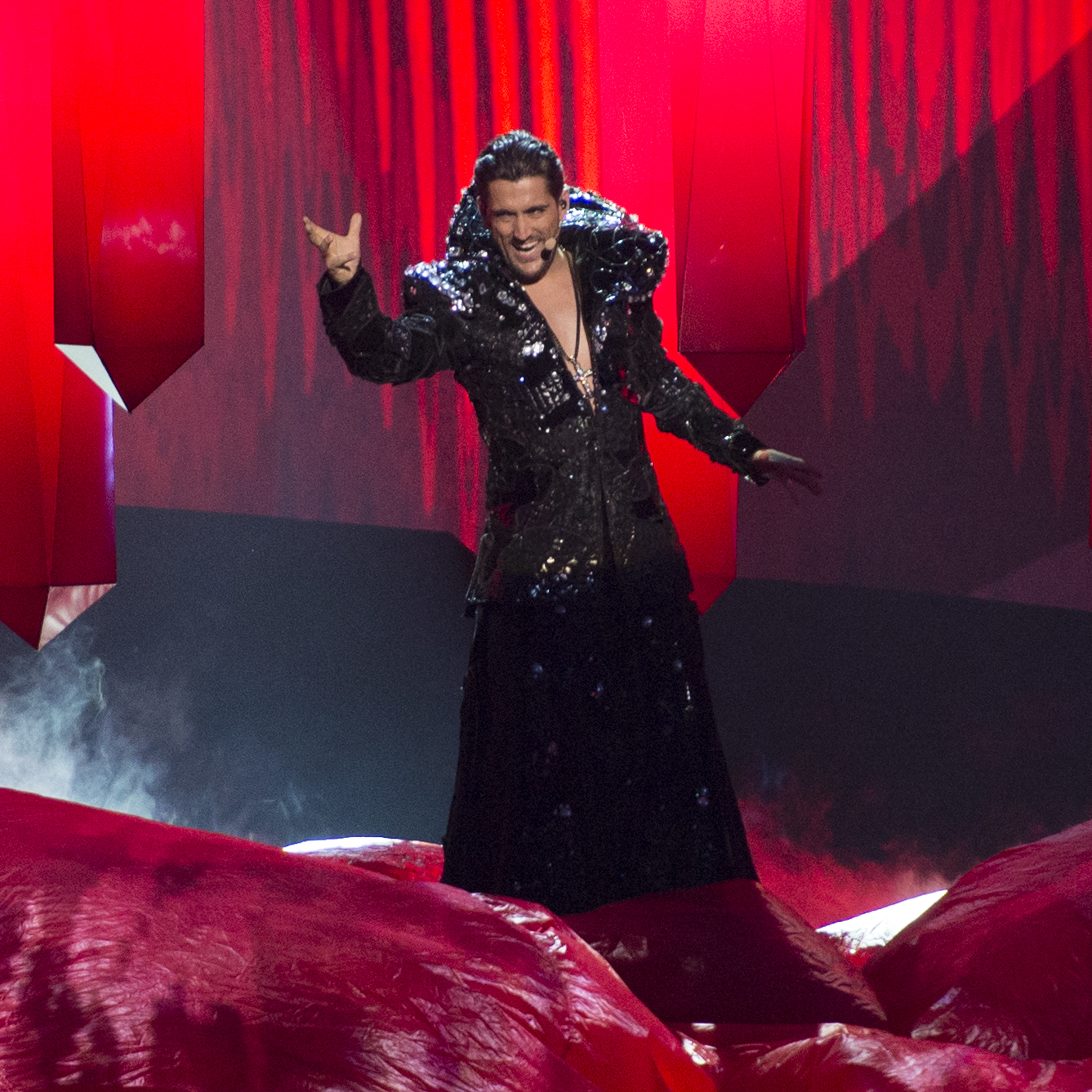 Cezar representing Romania with the song "It's My Life" during the second dress rehearsal of the second semi final of the Eurovision Song Contest 2013 in Malmö. (Help translate this text)